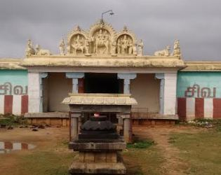 Neivanaisornakadesvarartemple நெய்வணை சொர்ணகடேஸ்வரர் கோயில்